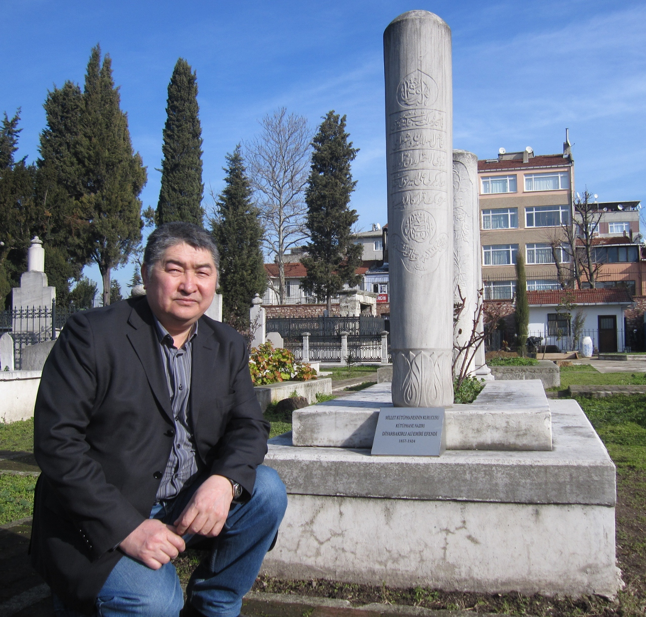 en – Dr. Tynchtykbek Chorotegin (Tchoroev), a Kyrgyz historian and orientalist, Professor of the Kyrgyz National University, during his visit of the graveyard of Ali Emiri Efendi in Istanbul, Turkey. 09.8.2009. Кыргызча: ky – Тынчтыкбек Чоротегин, кыргыз тарыхчысы жана чыгыш таануучусу, тарых илимдеринин доктору, Кыргыз Улуттук Университетинин профессору, Стамбул шаарында маркум Али Эмиринин бейитинин жанында. Түркия, 22.1.2012.